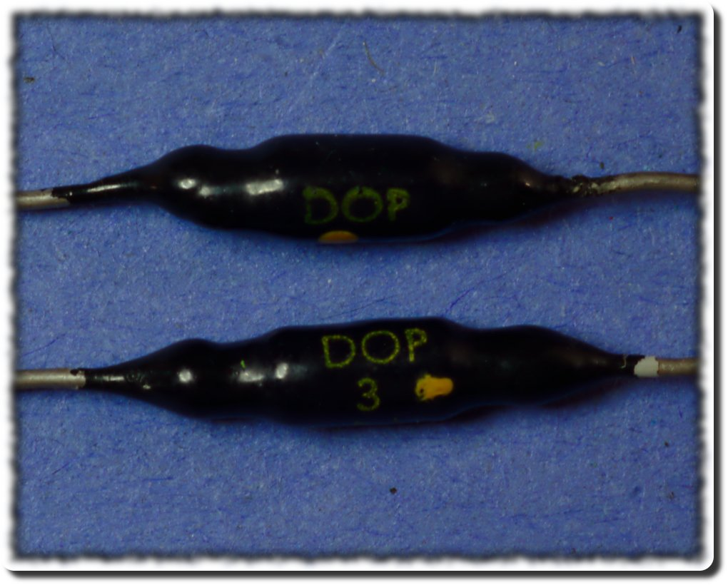 Polish germanium point contact rectifier DOP3